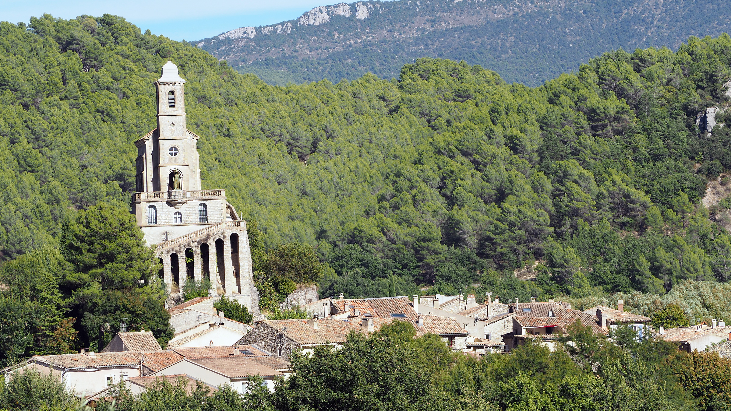 Pierrelongue